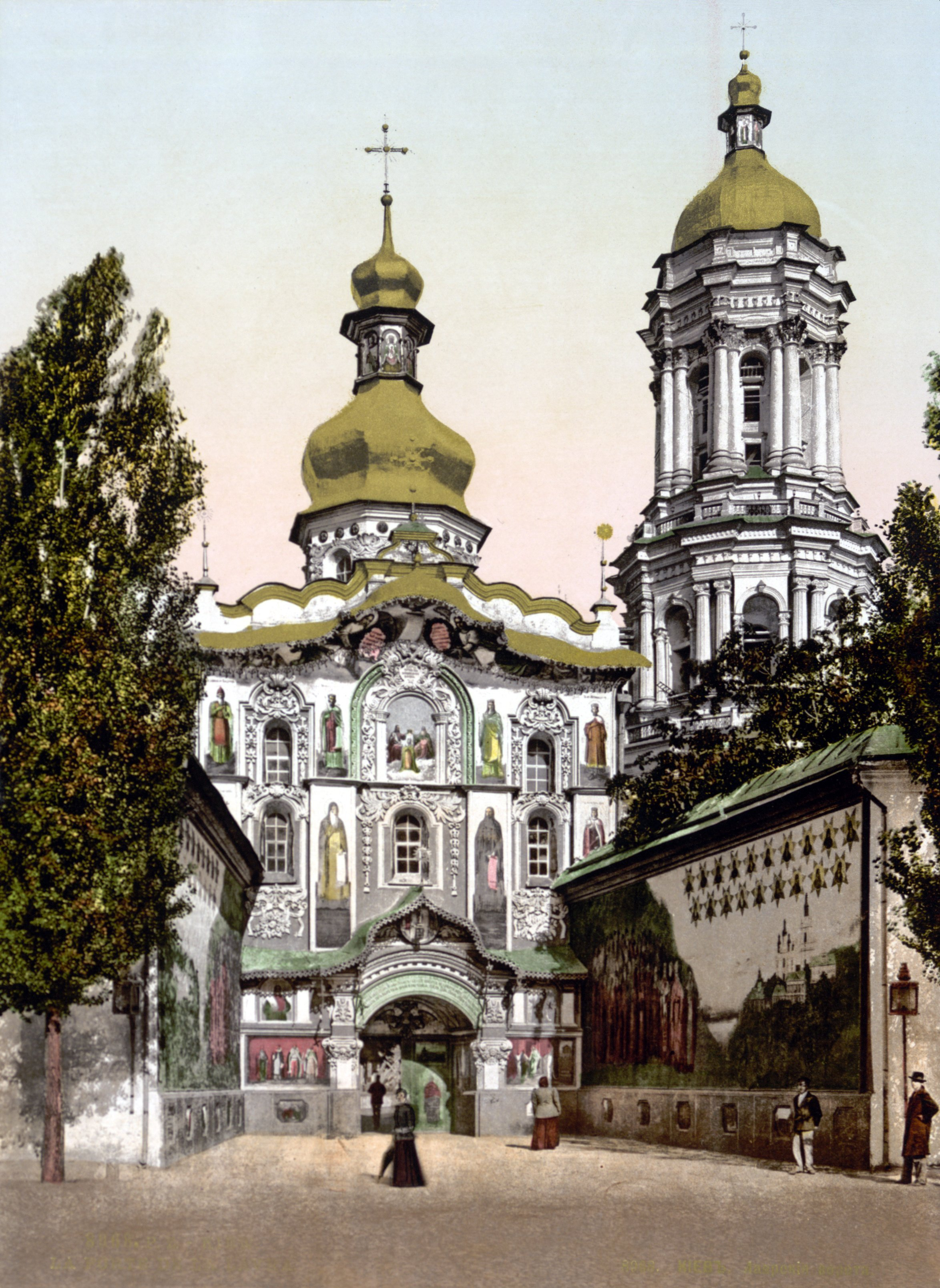 19th-century photo of the Lavra gate, Kiev, Russian Empire (now Ukraine). Print no. "8968"